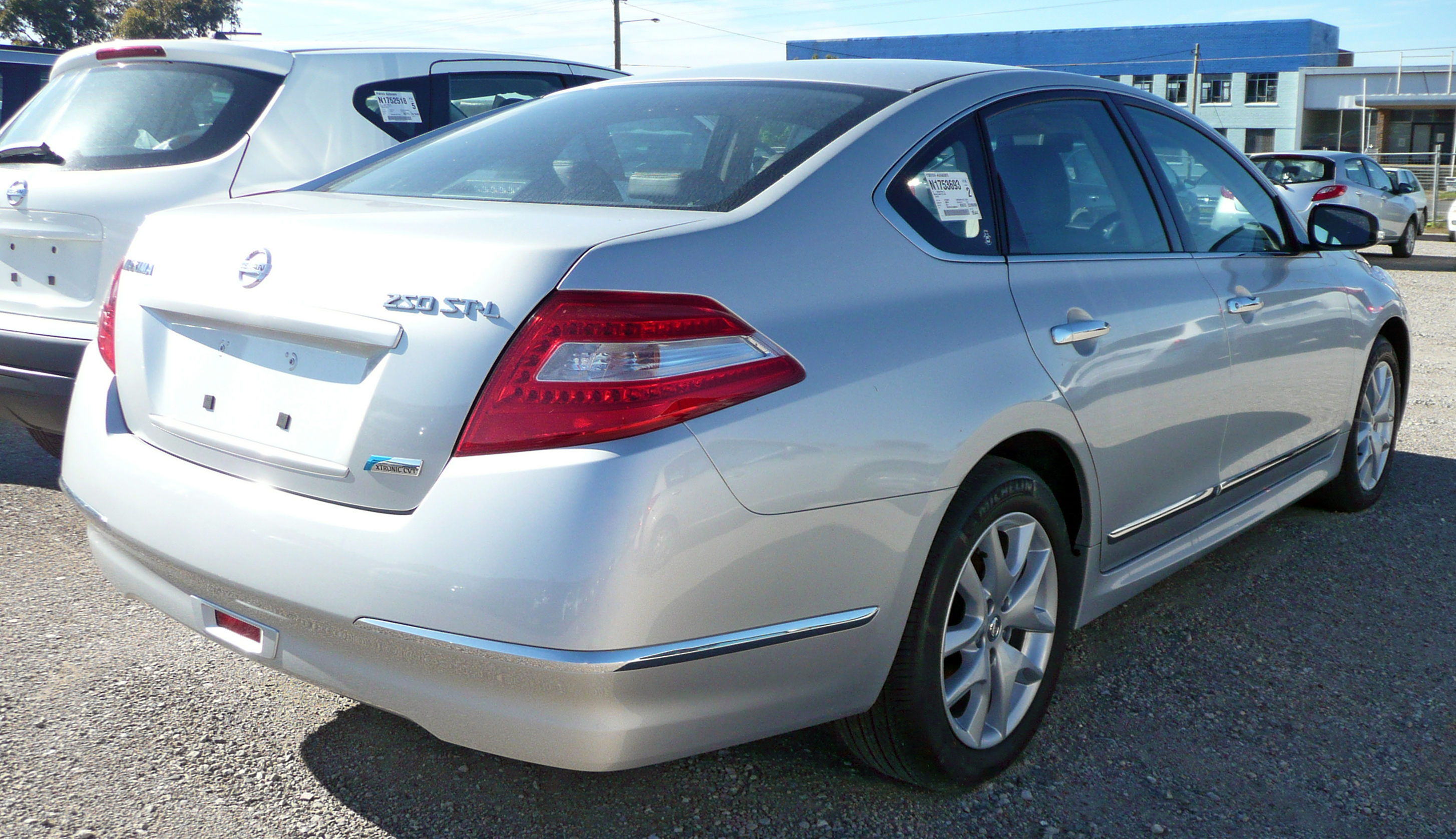 2009 Nissan Maxima (J32) 250 ST-L sedan. Photographed in Kirrawee, New South Wales, Australia.